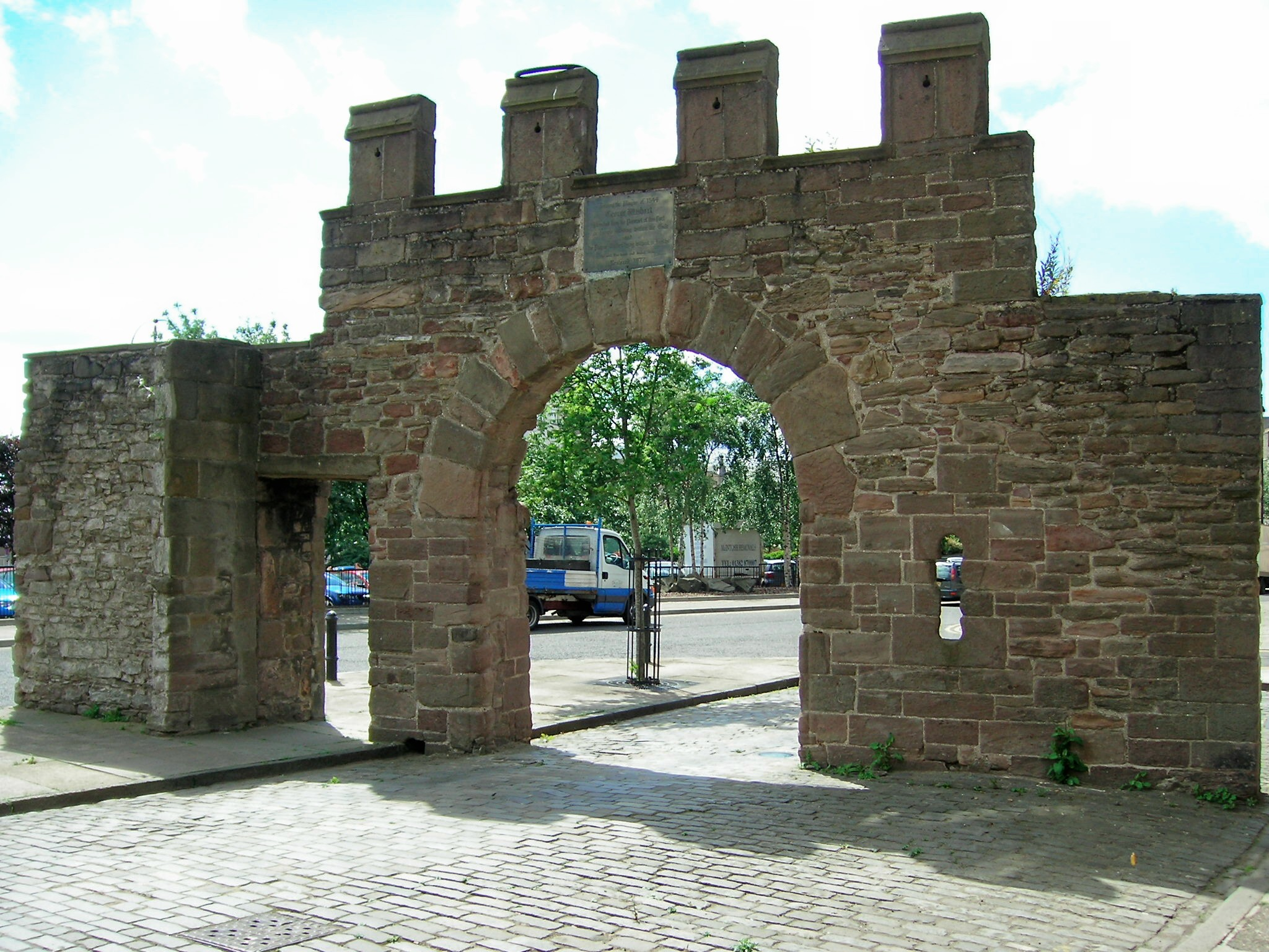 Wishart Arch, Dundee, United Kingdom. The last remaining part of the city walls